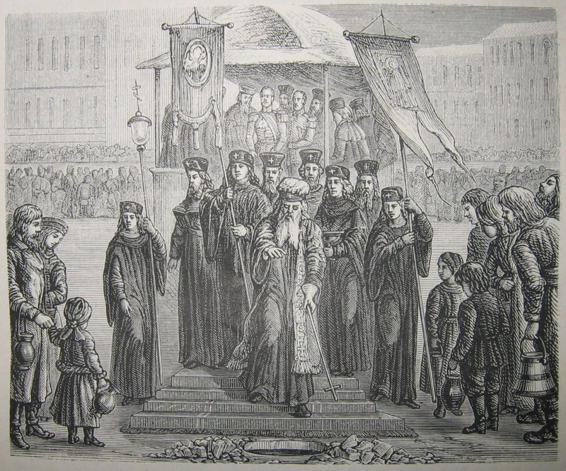 The Great Blessing of Waters on the Neva River during Epiphany.